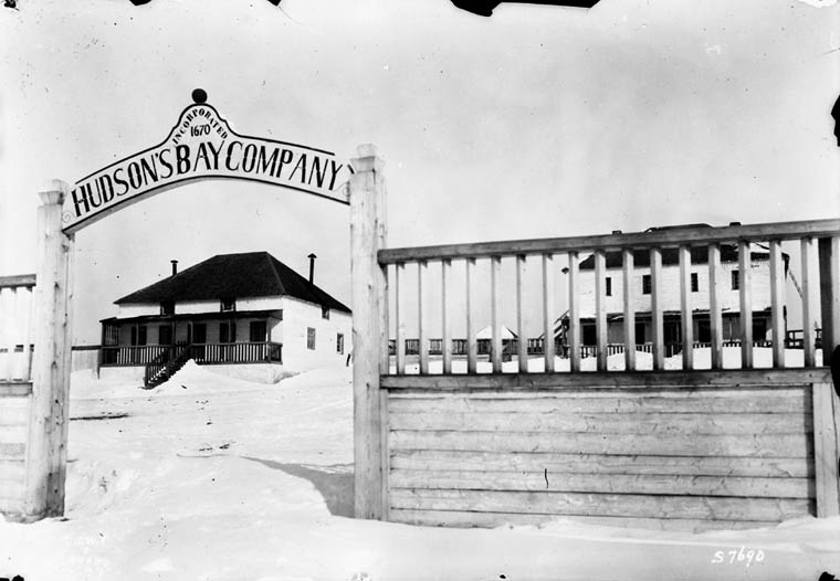 H.B.C. Post [Fort] Chipewyan, Alta.